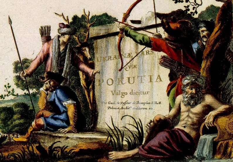 Ukraine. Pokutia